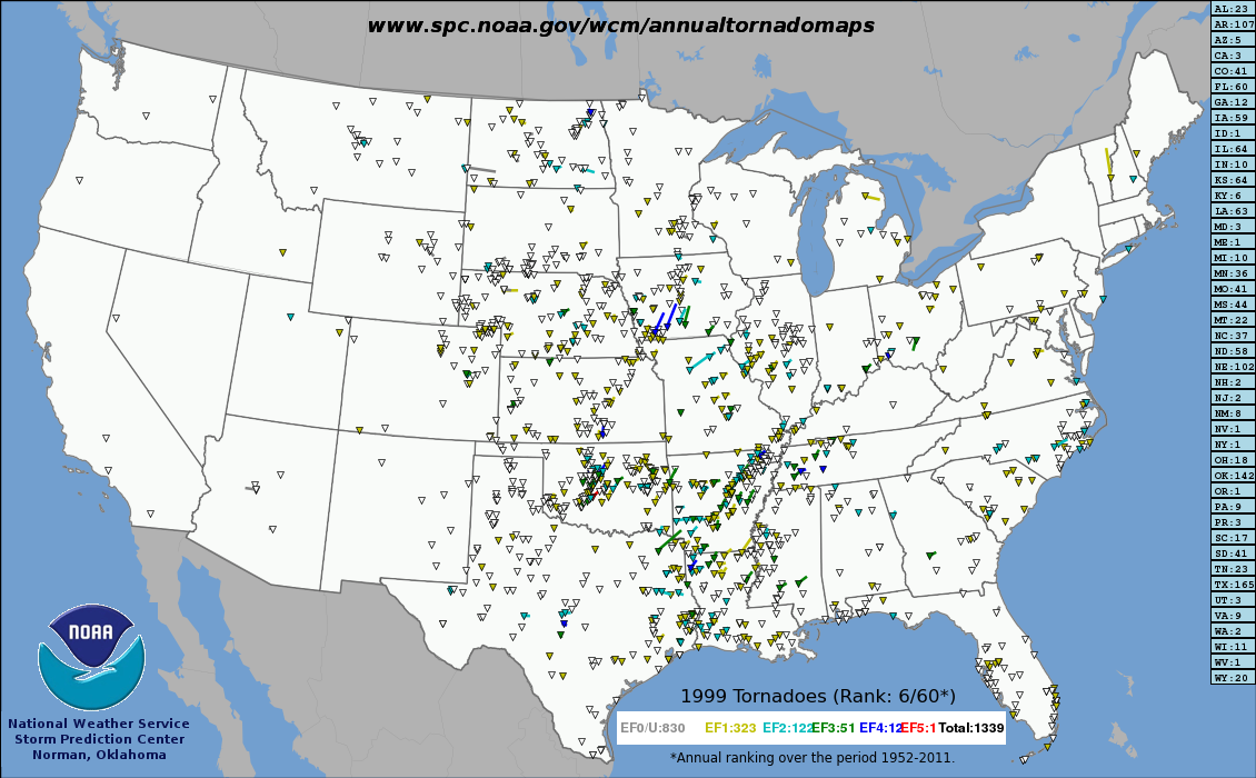 Tracks of all tornadoes that touched down in the United States during 1999. Tornadoes are color-coded by their Fujita Scale ranking